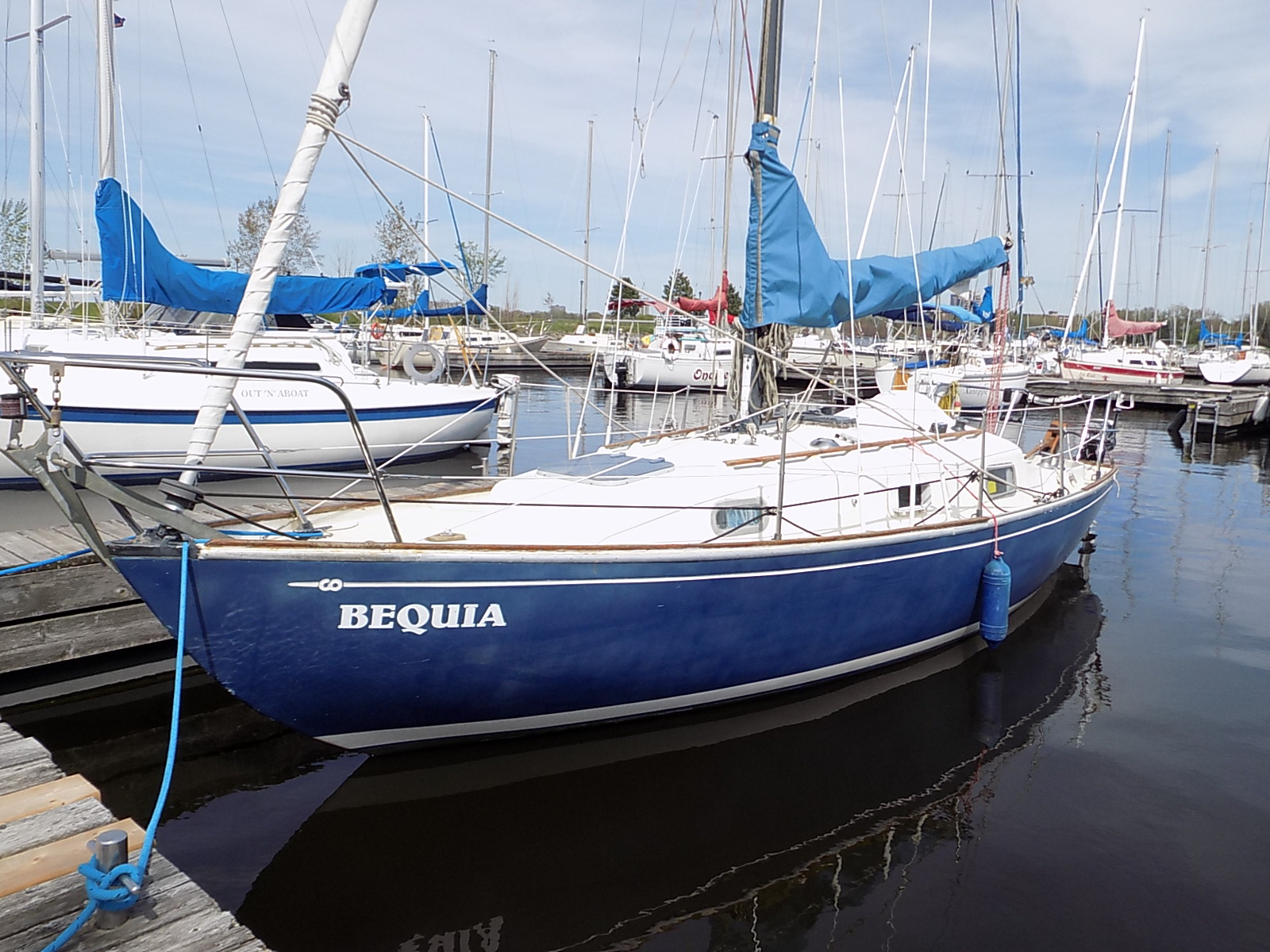 A Contessa 26 sailboat named Bequia.